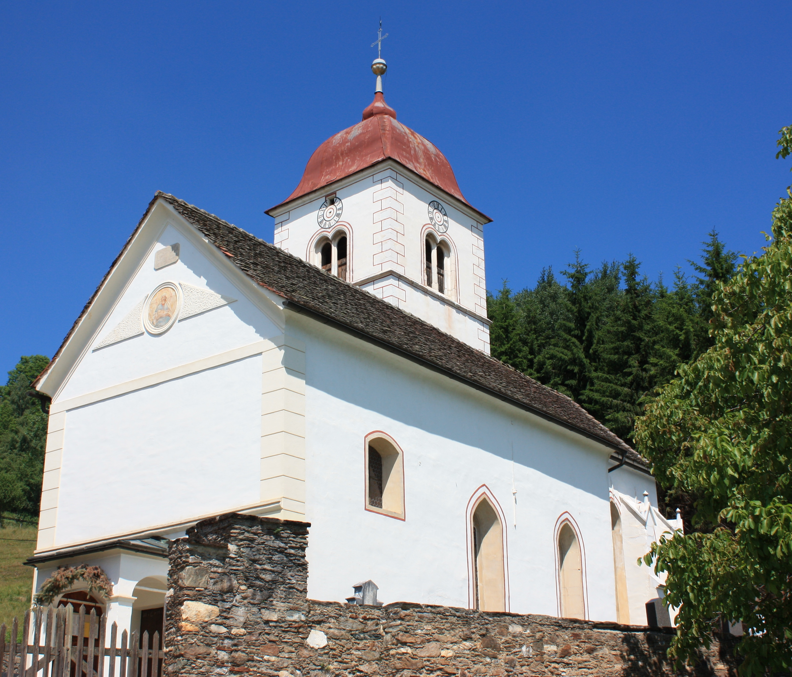 Parish church Maria Moos Locality:Kirchberg Community:Klein Sankt Paul